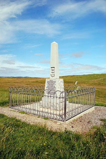 The Iolaire Memorial, Holm Point, near Stornoway, Lewis.